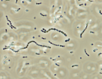 Phase contrast micrograph of Streptococcus iniae, strain QMA0076, "incubated in PBS, extensively washed and stained with streptavidin-FITC".